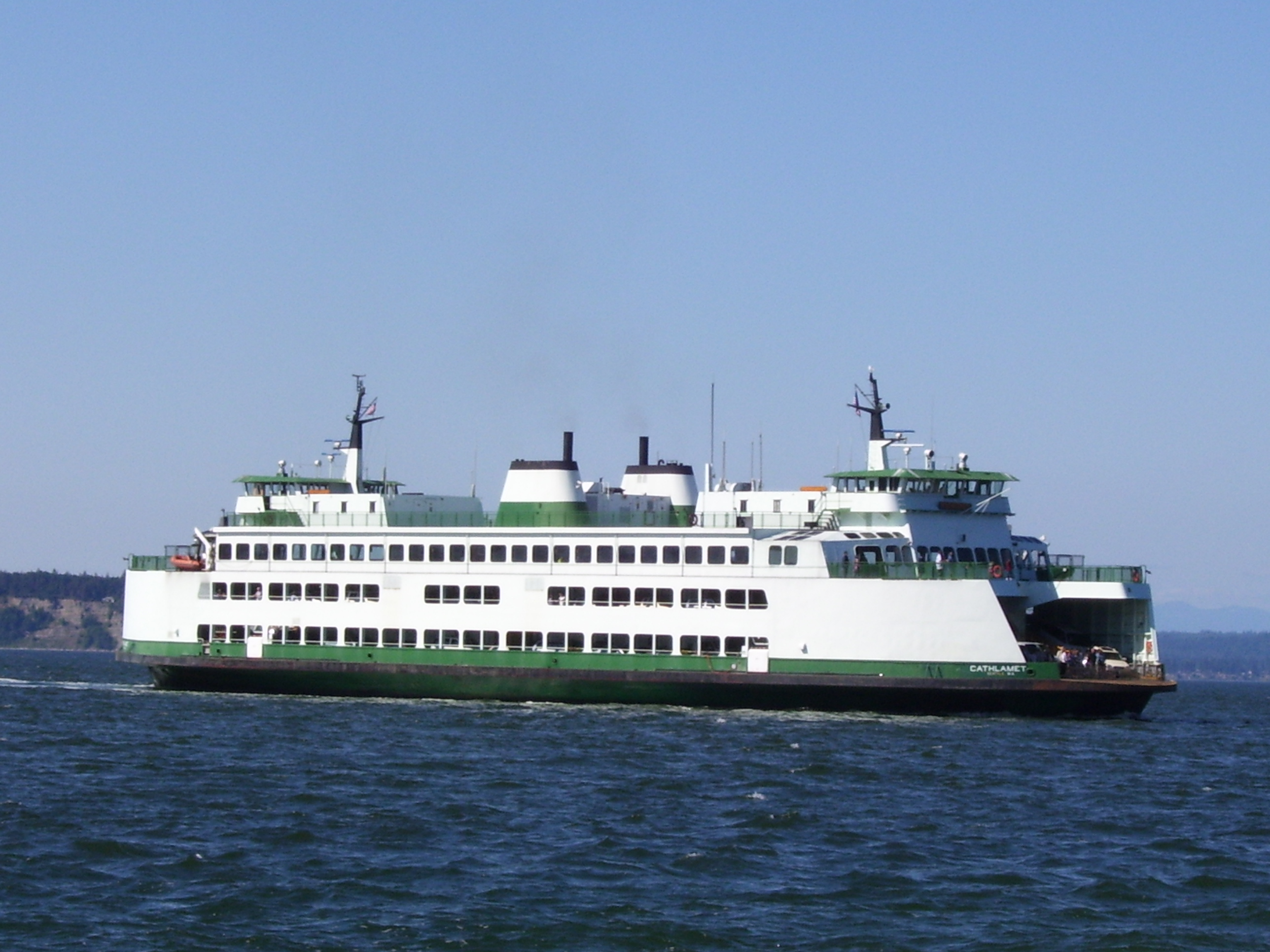 This is a photography of the Washington State Ferry M/V Cathlamet.